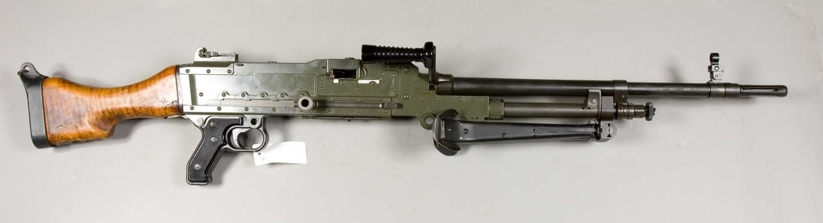 The Kulspruta 58 (Ksp 58) machine gun, chambered in 6,5 × 55 mm, is a Swedish version of the FN MAG. In the early 1970's the barrel was replaced with one chambered for 7,62 × 51 mm NATO. Photo from the Swedish Army Museum collections.